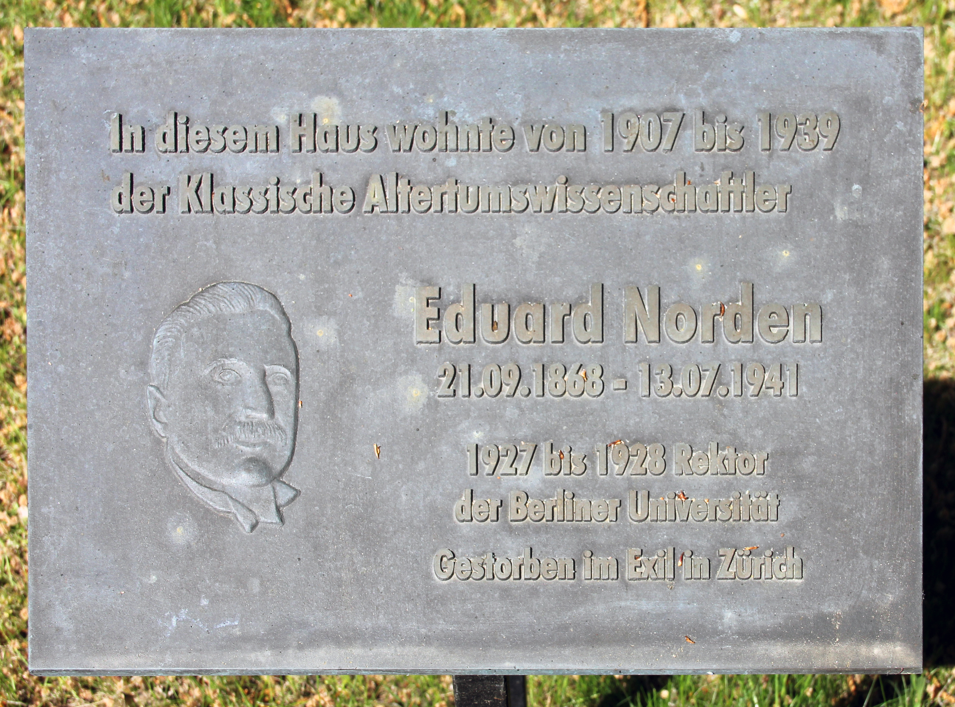 Memorial plaque, Eduard Norden, Baseler Straße 64, Berlin-Lichterfelde, Deutschland